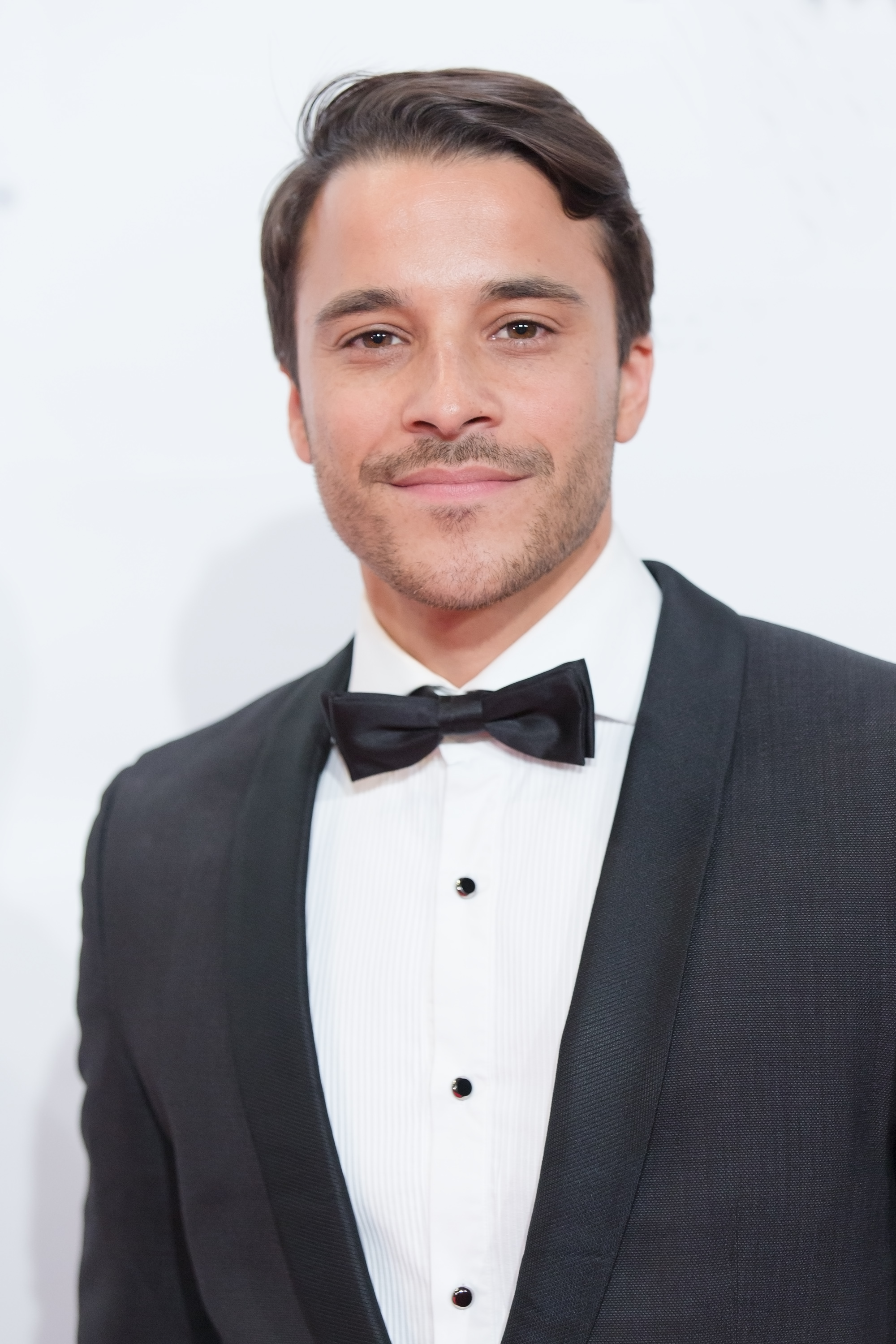 Kostja Ullmann on the red carpet of the Filmball Vienna 2016 at Rathaus, Vienna, Austria.